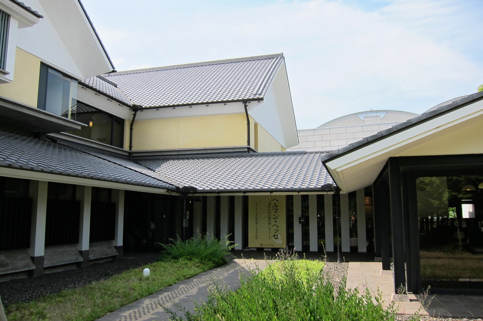 Fukuyama Castle Park, Fukuyama, Hiroshima precture, Japan